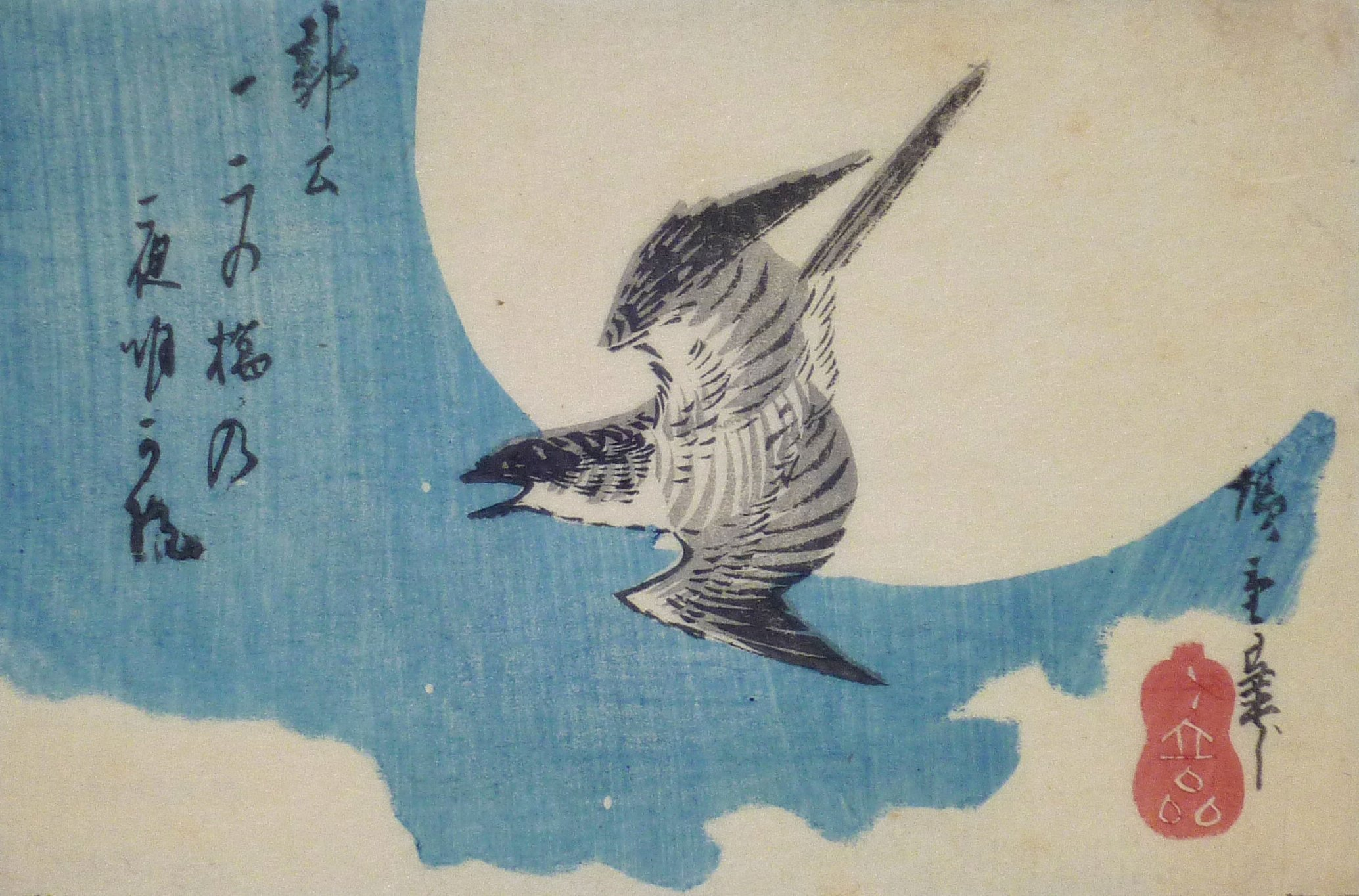 A lesser cuckoo flying